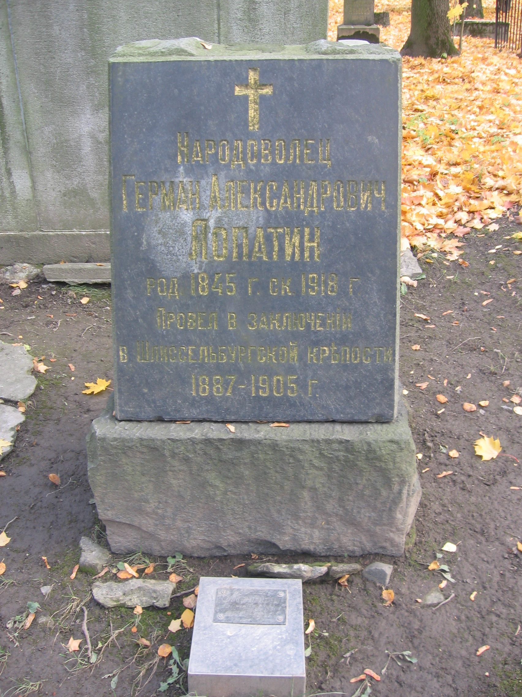 Grave of German Lopatin